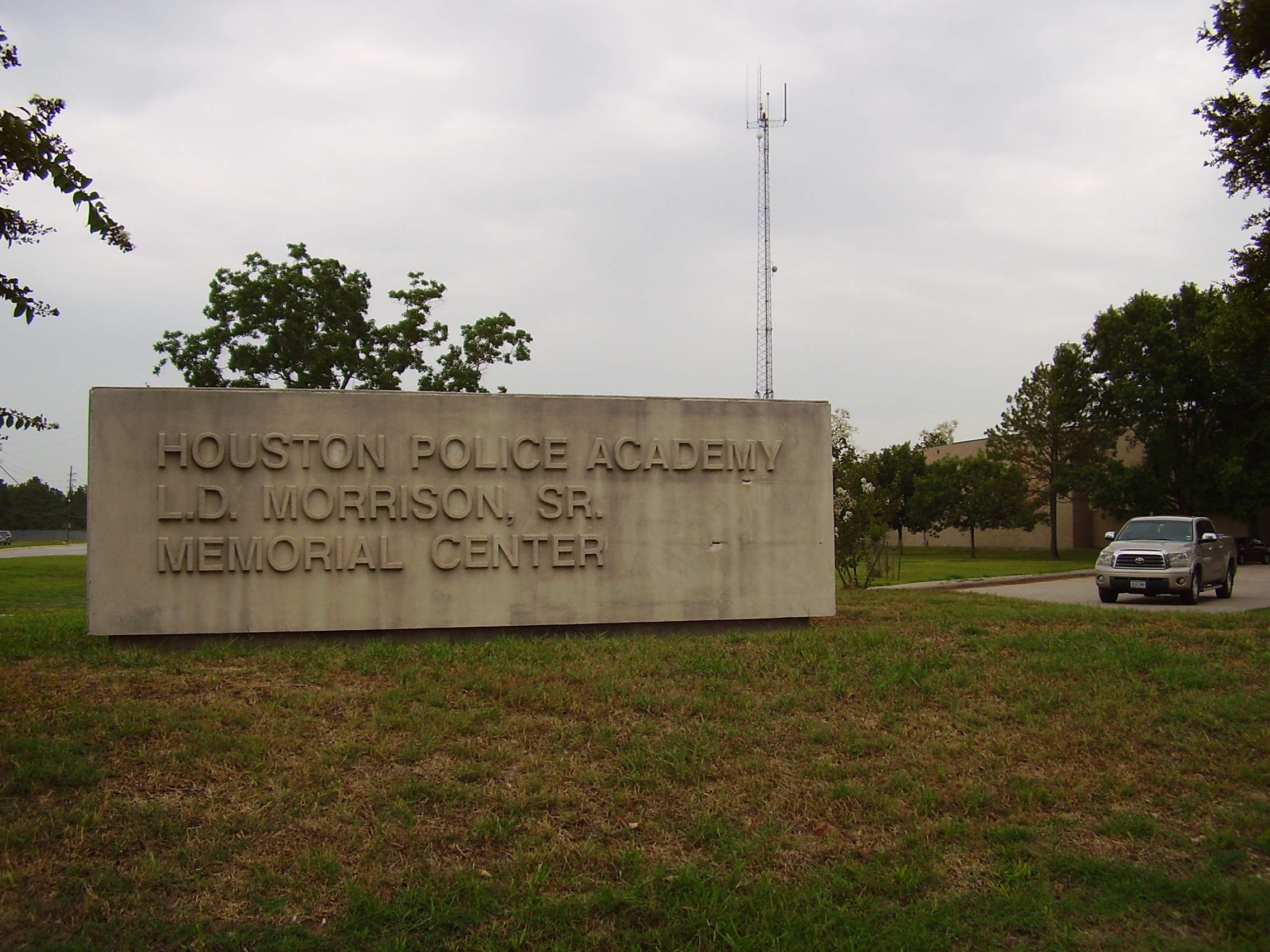 Houston Police Academy L.D. Morrison, Sr. Memorial Center